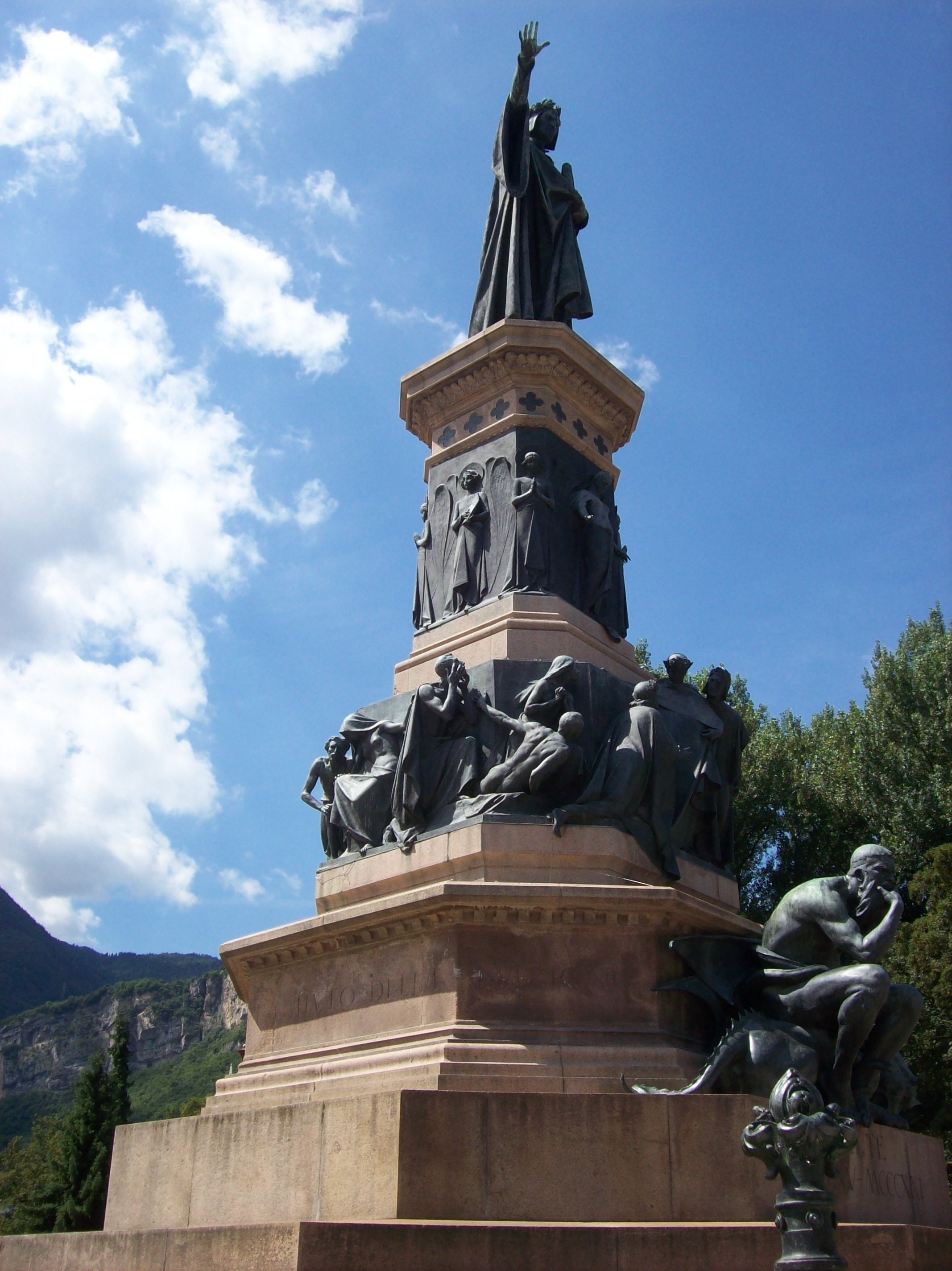 Cesare Zocchi, Statue of Dantè in the city of Trento.